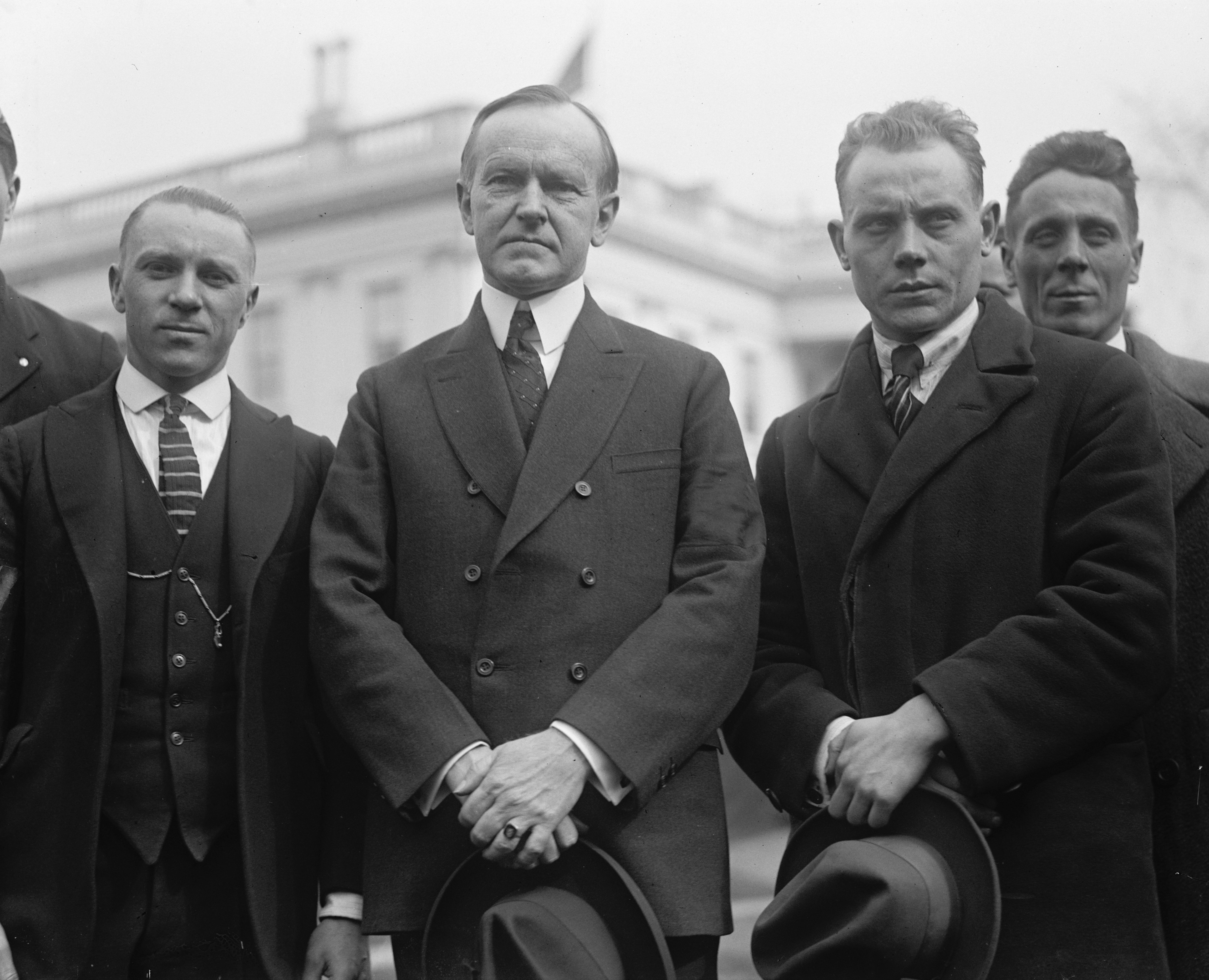 Joie Ray, left, and Paavo Nurmi, right, visit U.S. President Calvin Coolidge at the White House on 21 February 1925. Complete description from the Library of Congress website: TITLE: Joie Ray, Coolidge, and Paavo Nurmi at W.H., [2/21/25] CALL NUMBER: LC-F8- 34336[P&P] REPRODUCTION NUMBER: LC-DIG-npcc-13029 (digital file from original photo) RIGHTS INFORMATION: No known restrictions on publication. MEDIUM: 1 negative : glass ; 4 x 5 in. or smaller CREATED/PUBLISHED: [1925 February 21] NOTES: Title from unverified data provided by the National Photo Company on the negative or negative sleeve. Date from related negative LC-F8-34335. Gift; Herbert A. French; 1947. This glass negative might show streaks and other blemishes resulting from a natural deterioration in the original coatings. Temp note: Batch three. FORMAT: Glass negatives. PART OF: National Photo Company Collection (Library of Congress) REPOSITORY: Library of Congress Prints and Photographs Division Washington, D.C. 20540 USA DIGITAL ID: (digital file from original photo) npcc 13029 CONTROL #: npc2007013028